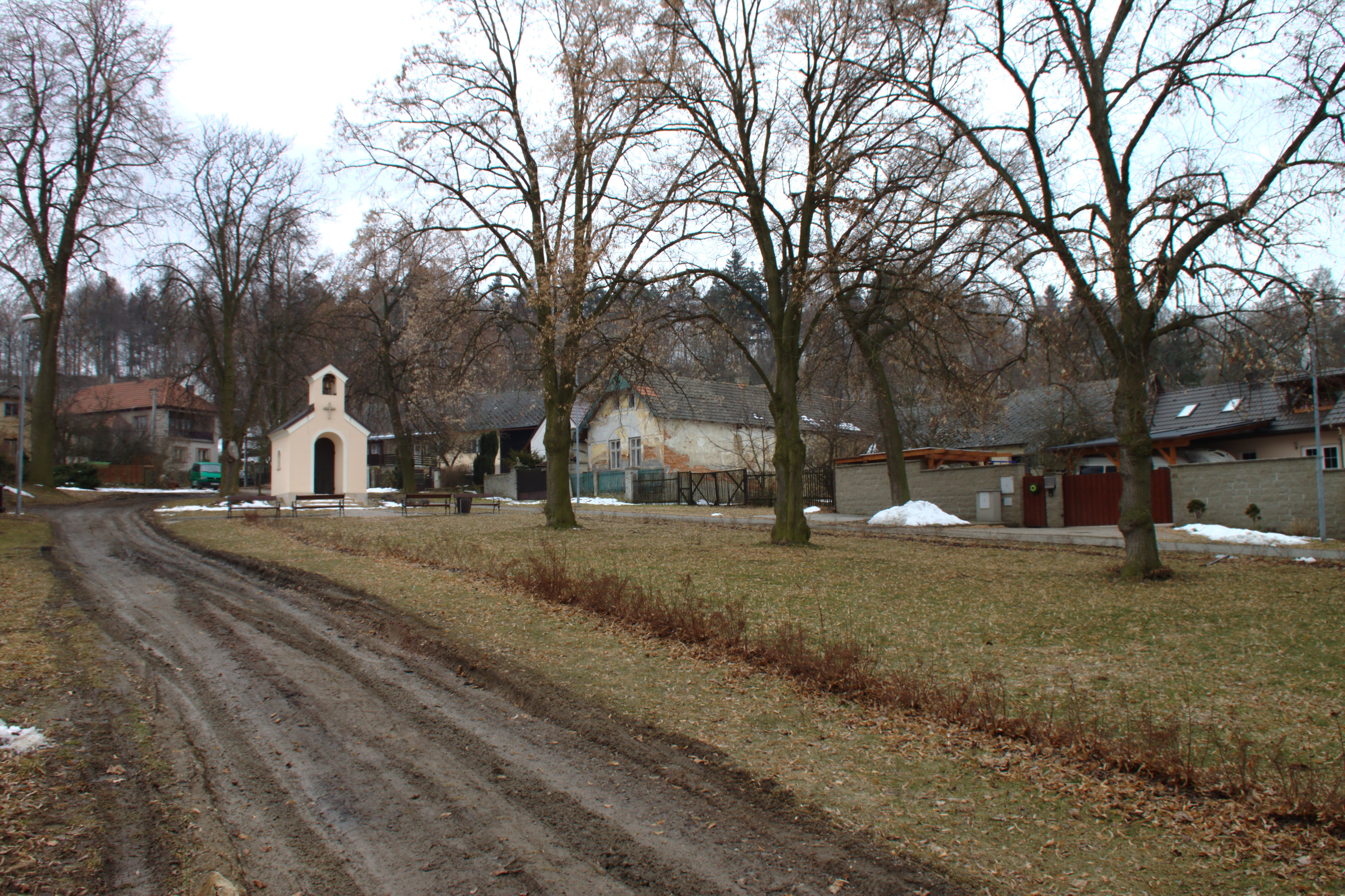 A common in Zavidov, Central Bohemian Region, CZ